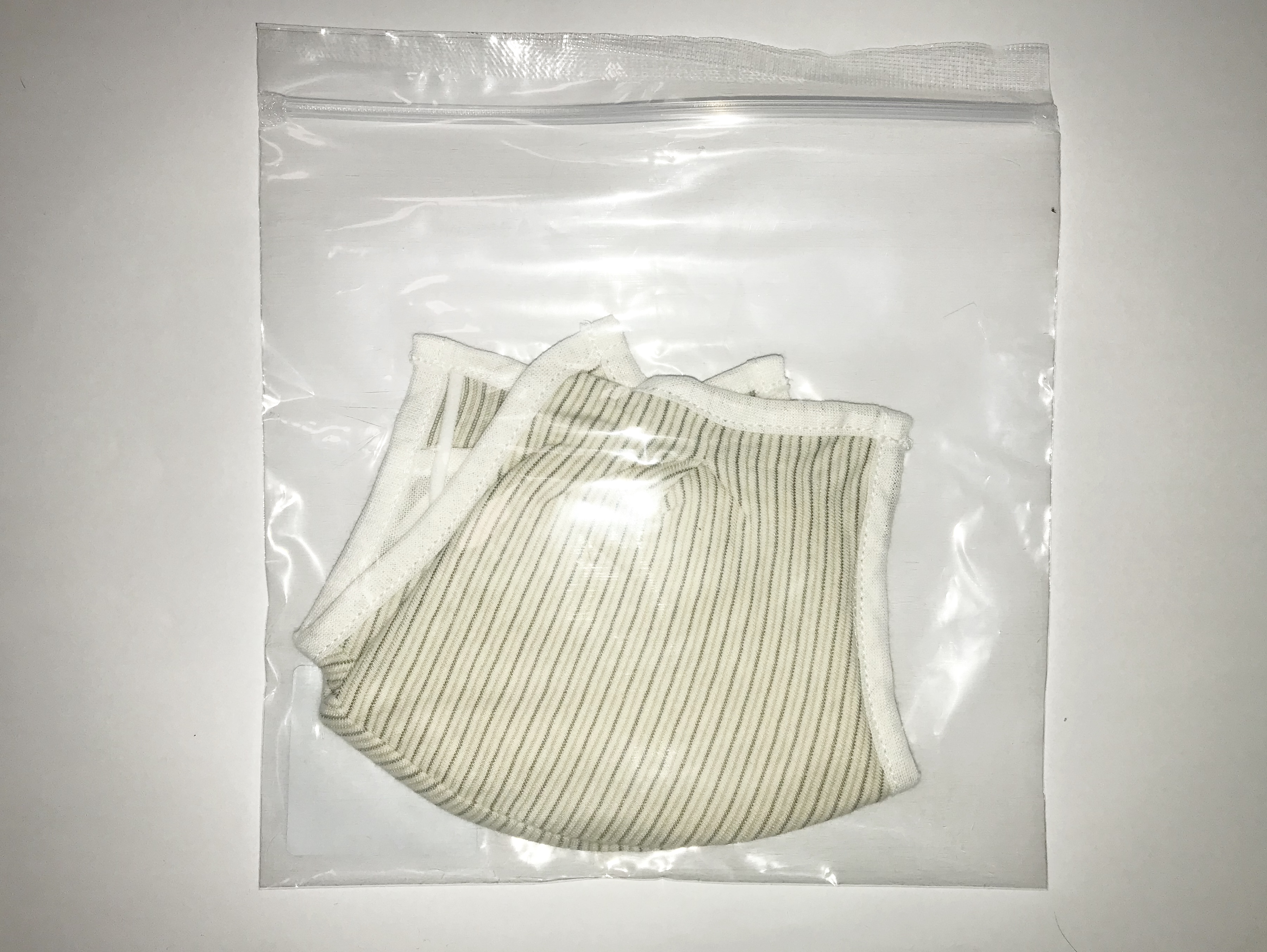 This picture is about a sealed CuMask which is the appearance of the Mask when received. The sealing bag has a logo of CuMask with the warning of "NOT FOR SALE" at the front.